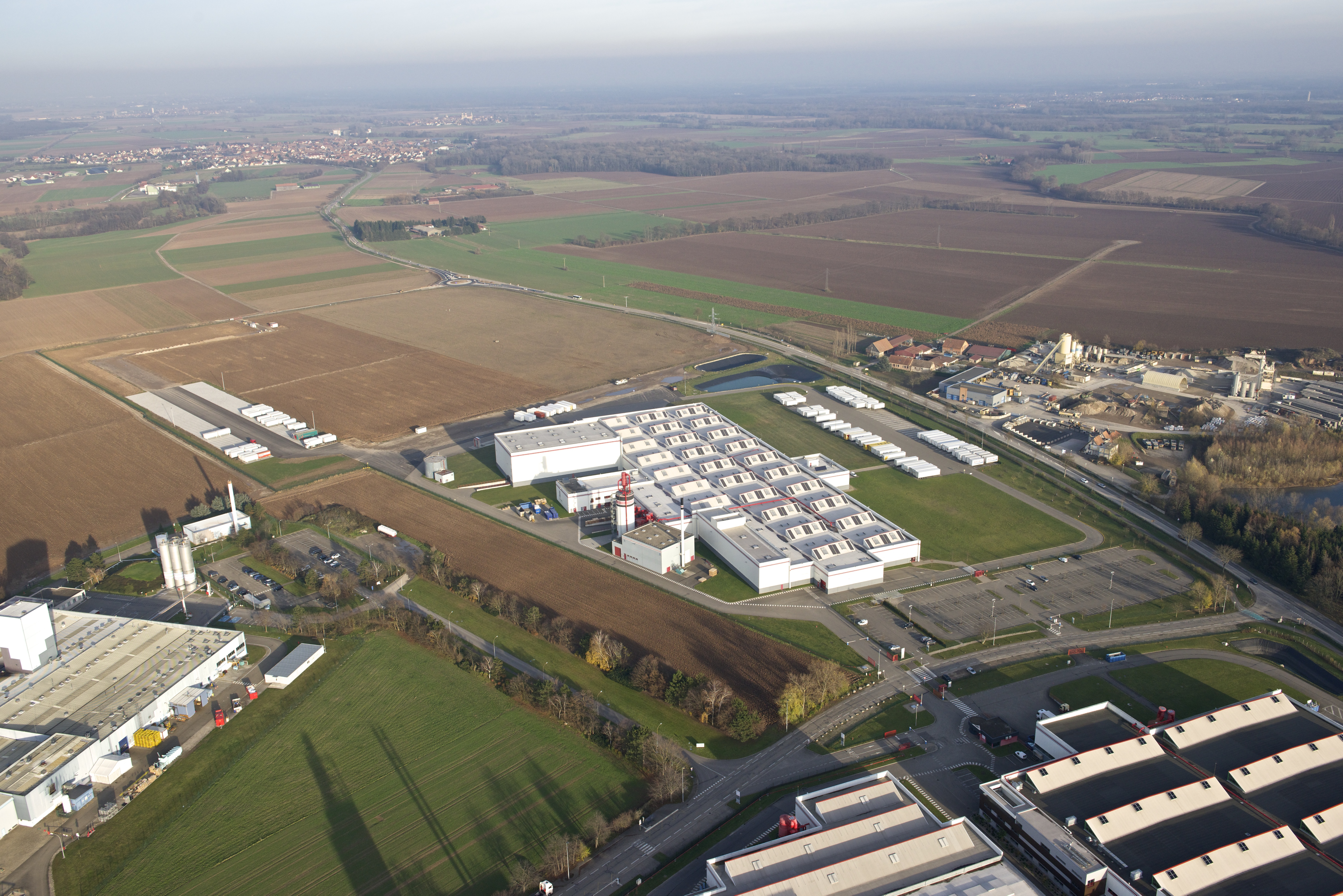 Vue aérienne des trois tranches de l'usine SALM à Sélestat - décembre 2015